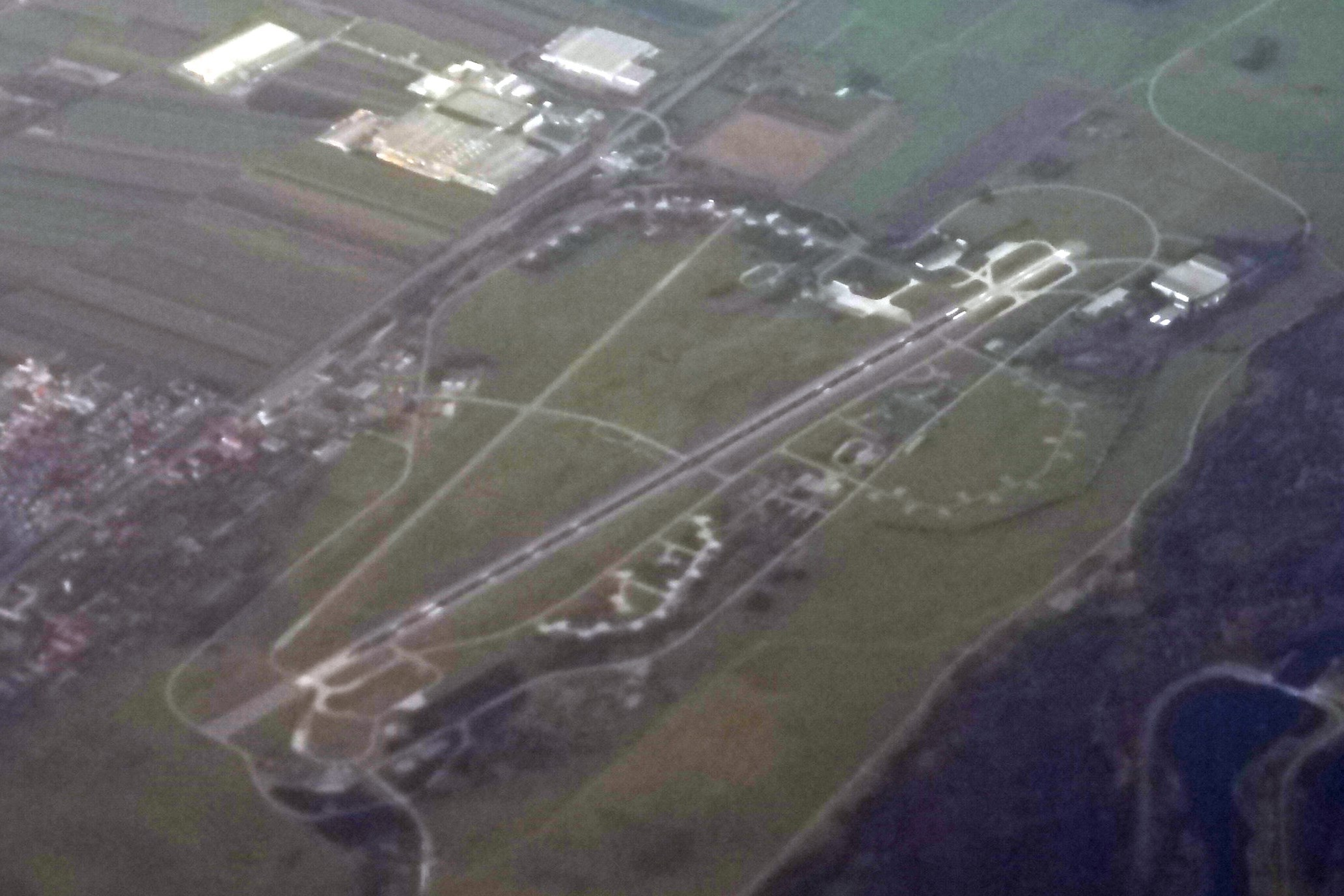 ETSL AIRPORT LECHFELD AIR FORCE BASE FROM A319 F-GRXD FLIGHT MUC-CDG